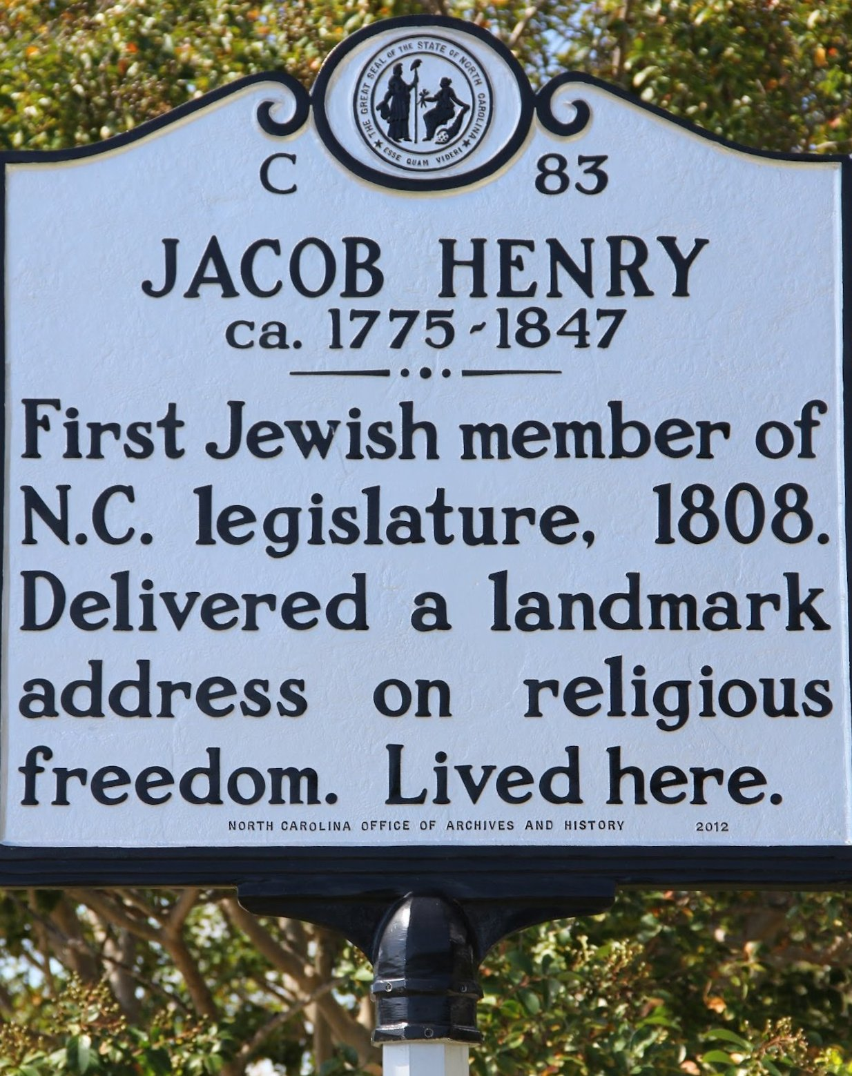 Jacob Henry House